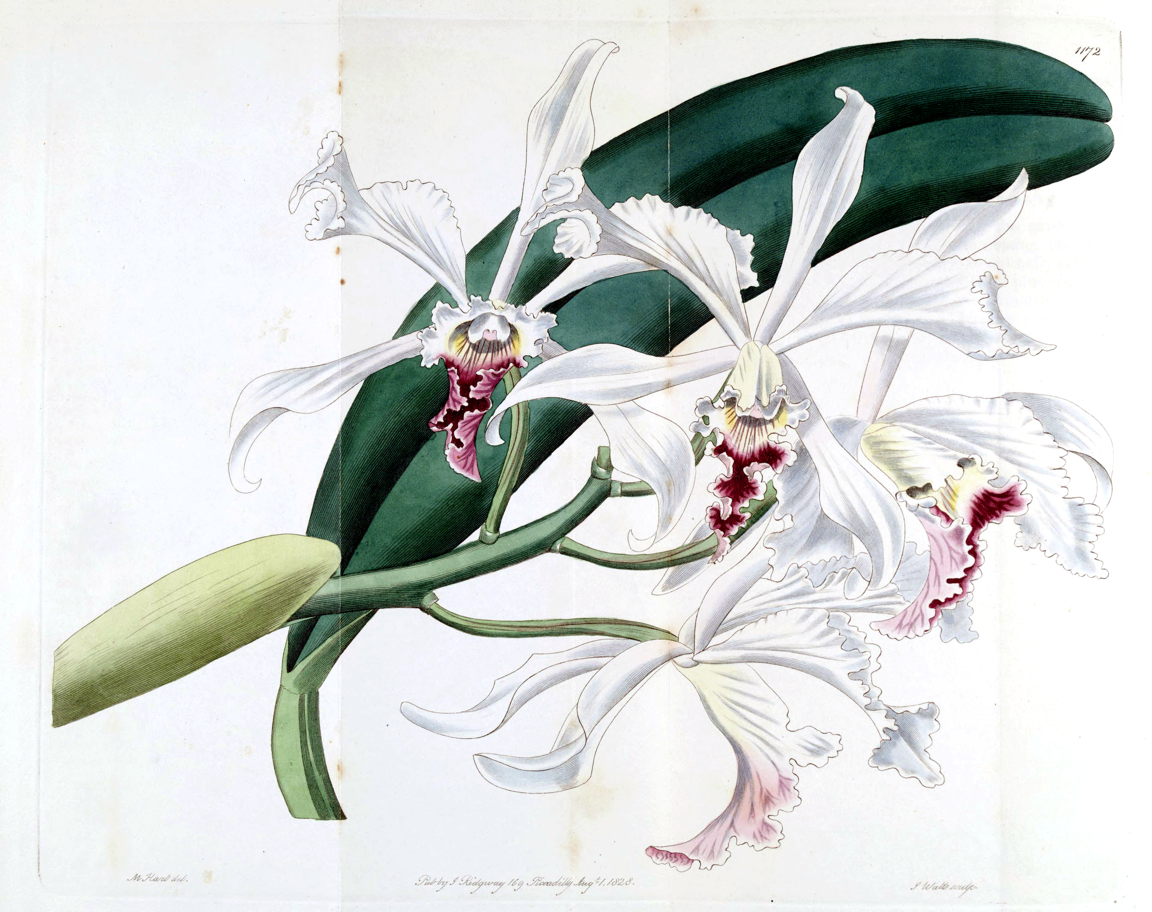 Illustration of Sophronitis crispa (as syn. Cattleya crispa)